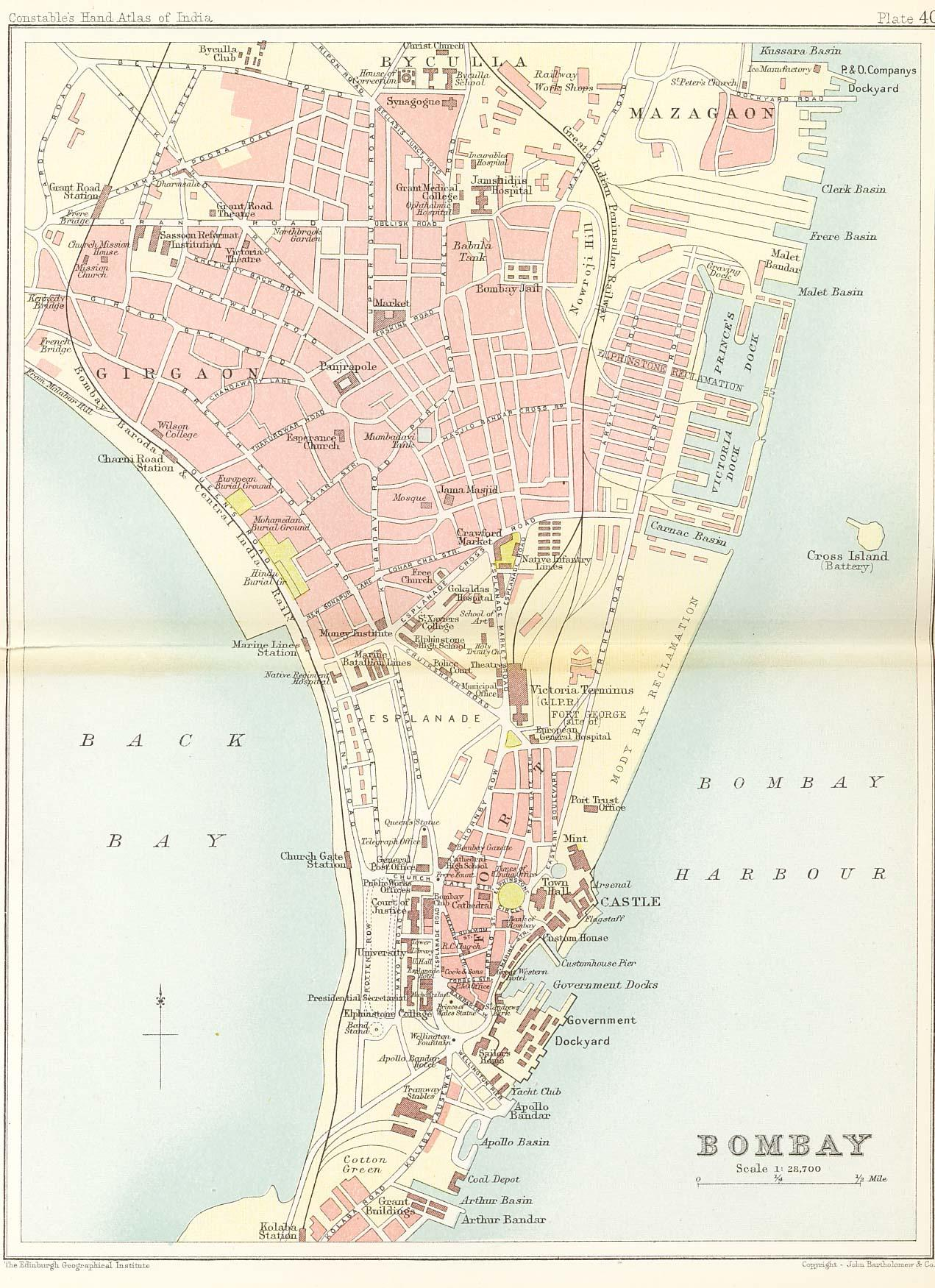 Bombay City map